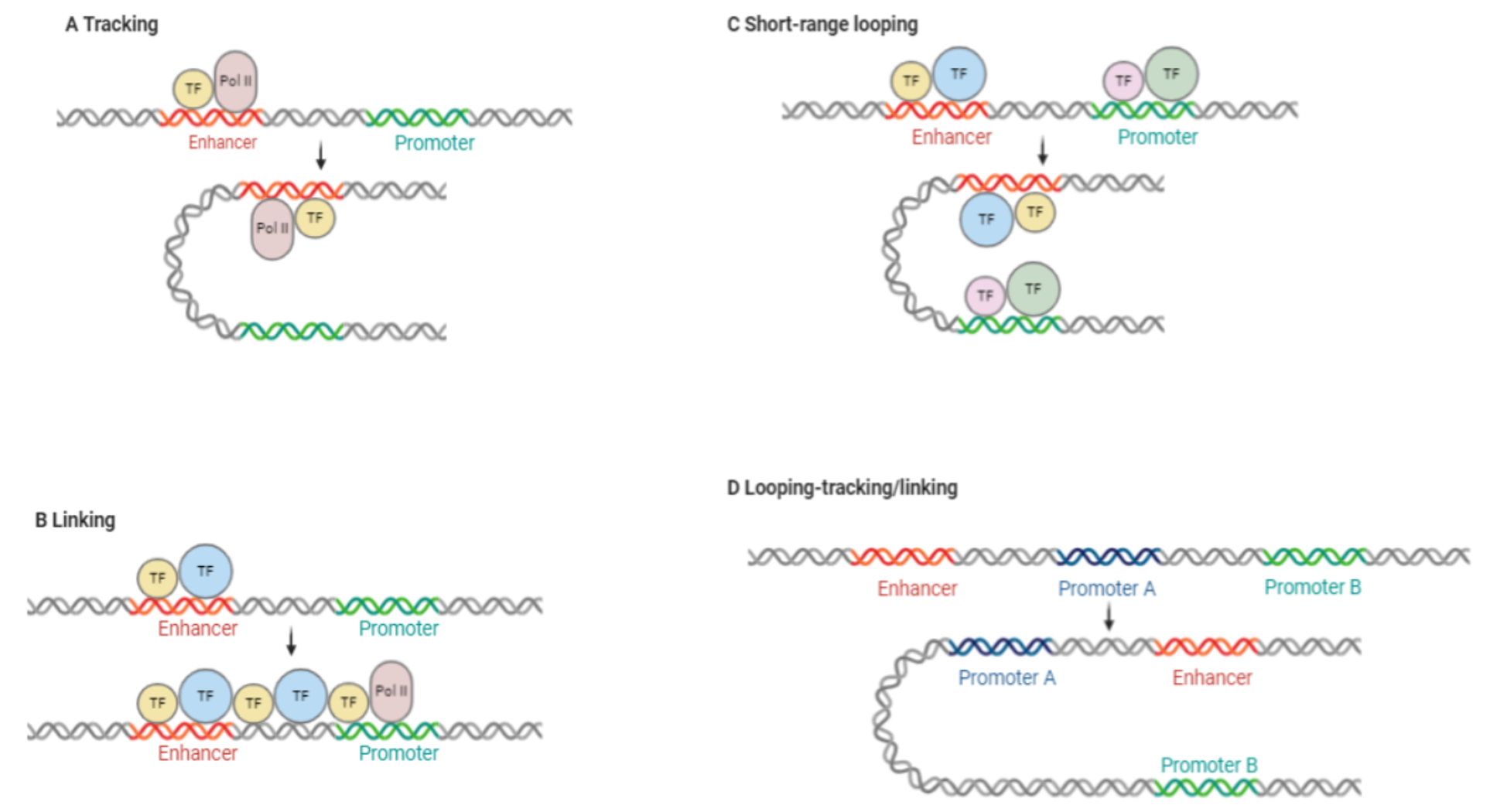 models of promoter-enhancer interactions